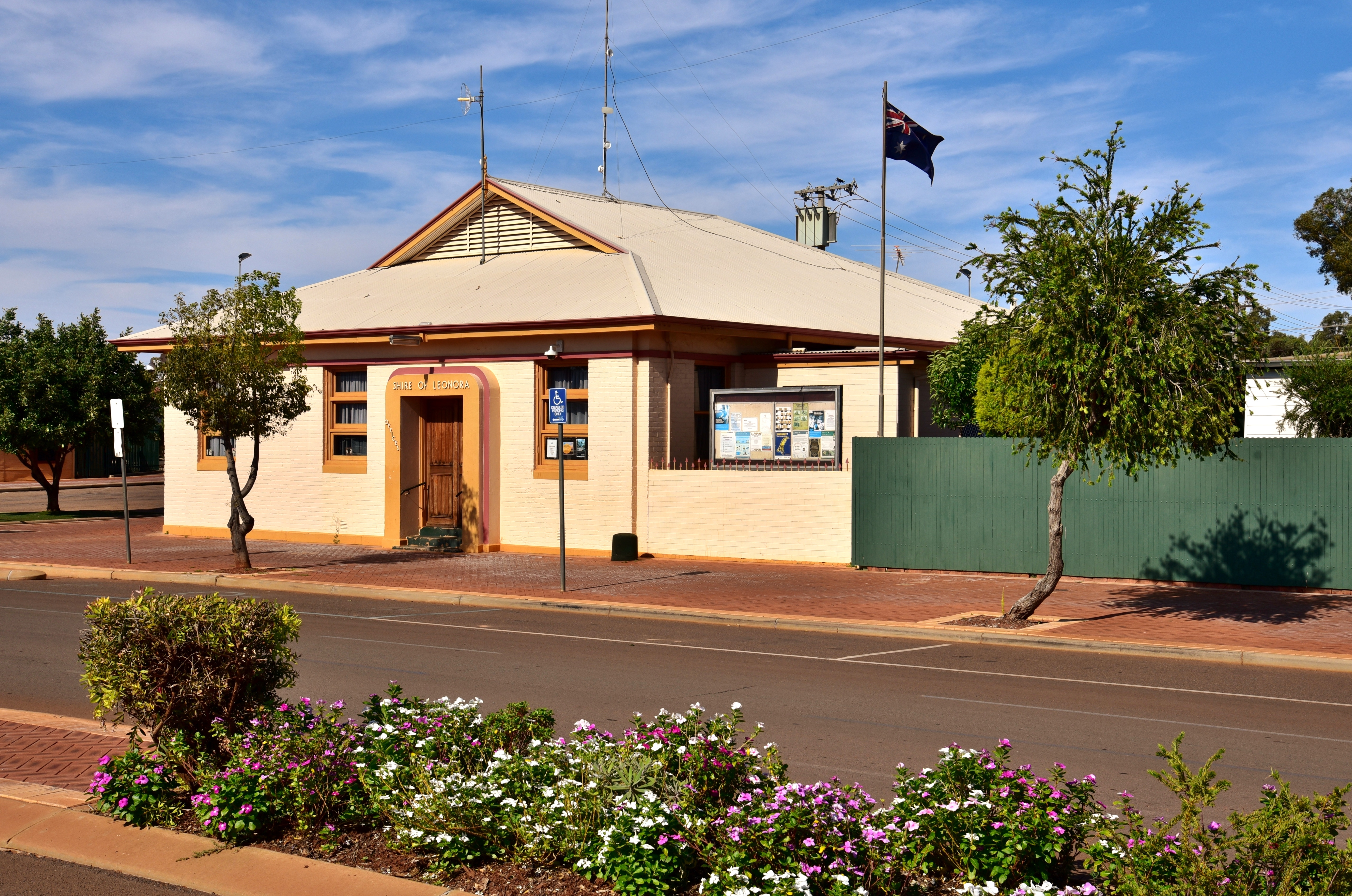 View of the Shire of Leonora shire offices, Tower Street, Leonora, Western Australia